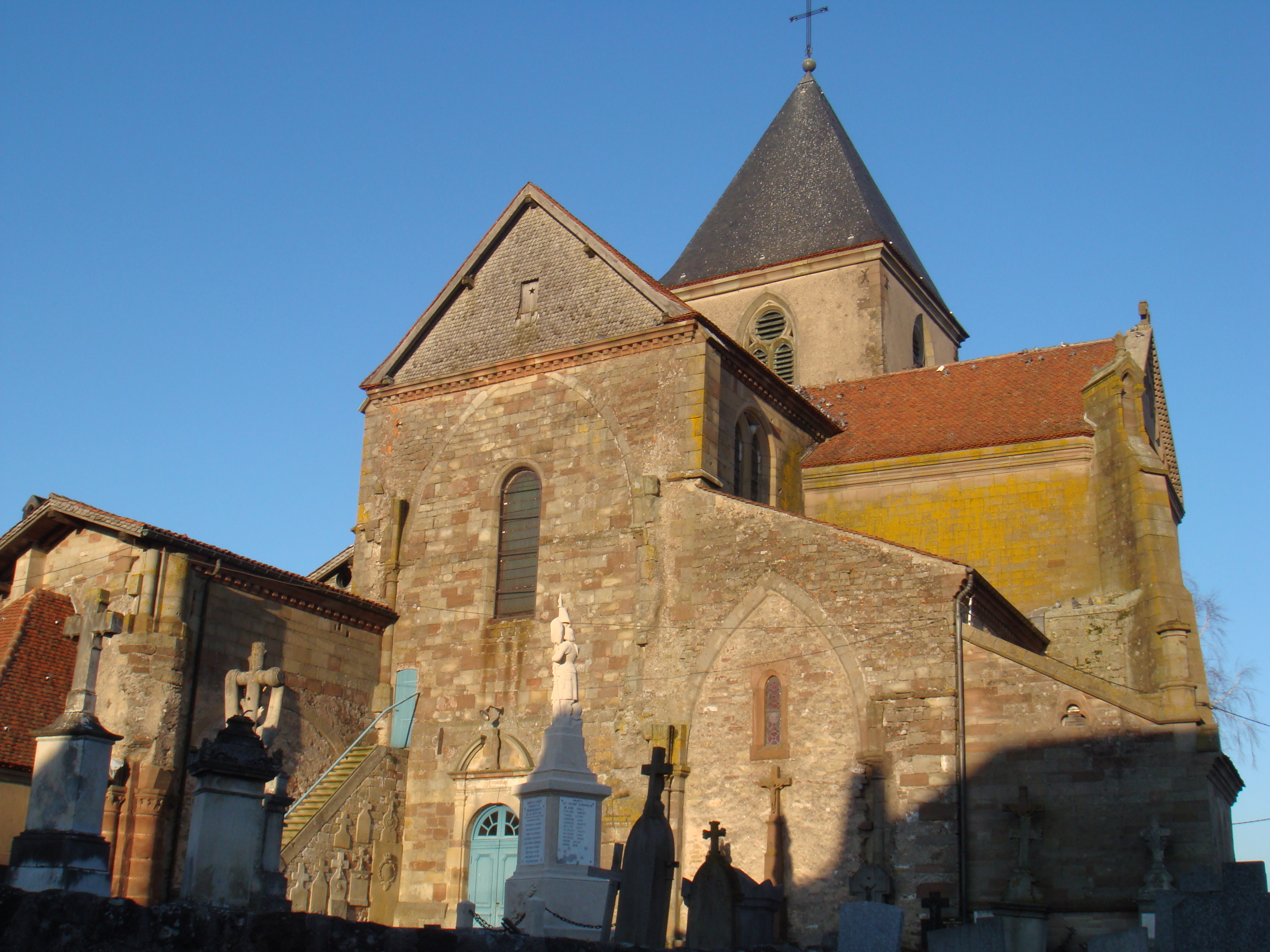 Eglise Abbatiale de Hesse, le choeur